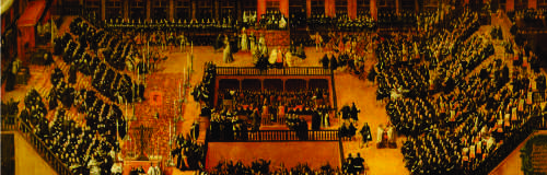 Ecumenical Council in Constance 1414-1418. Reading of Decree Frequens